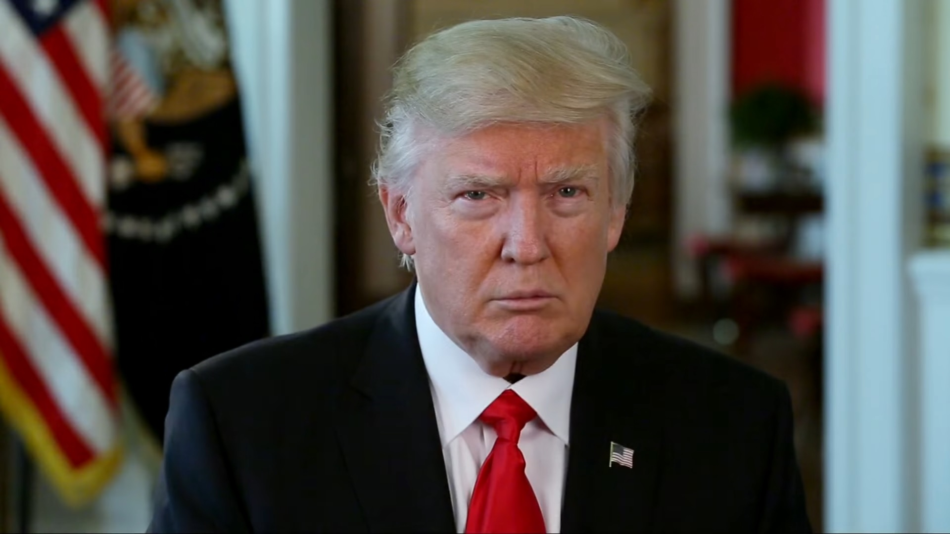 Picture of Donald Trump's first Weekly Address as President of the United States - Saturday, January 28th, 2017